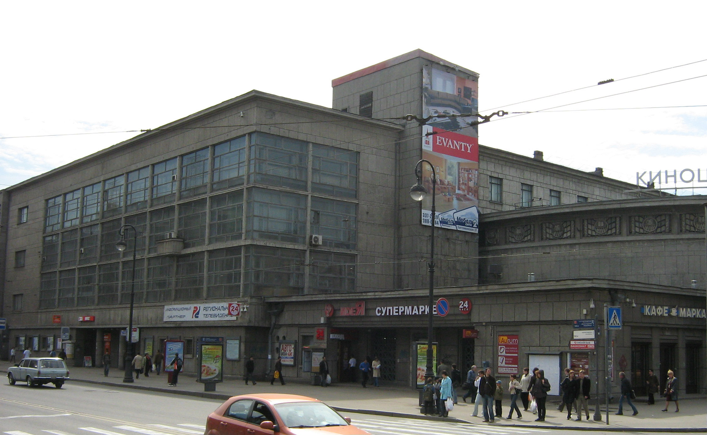 Dvorets kultury imeni Lensoveta (Lensovet Culture Palace), Kamennoostrovskiy avenue, 42, Saint-Petersburg, Russia